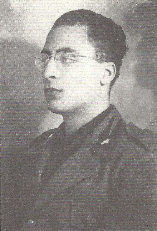 Italian WW2 spy Carmelo Borg Pisani.